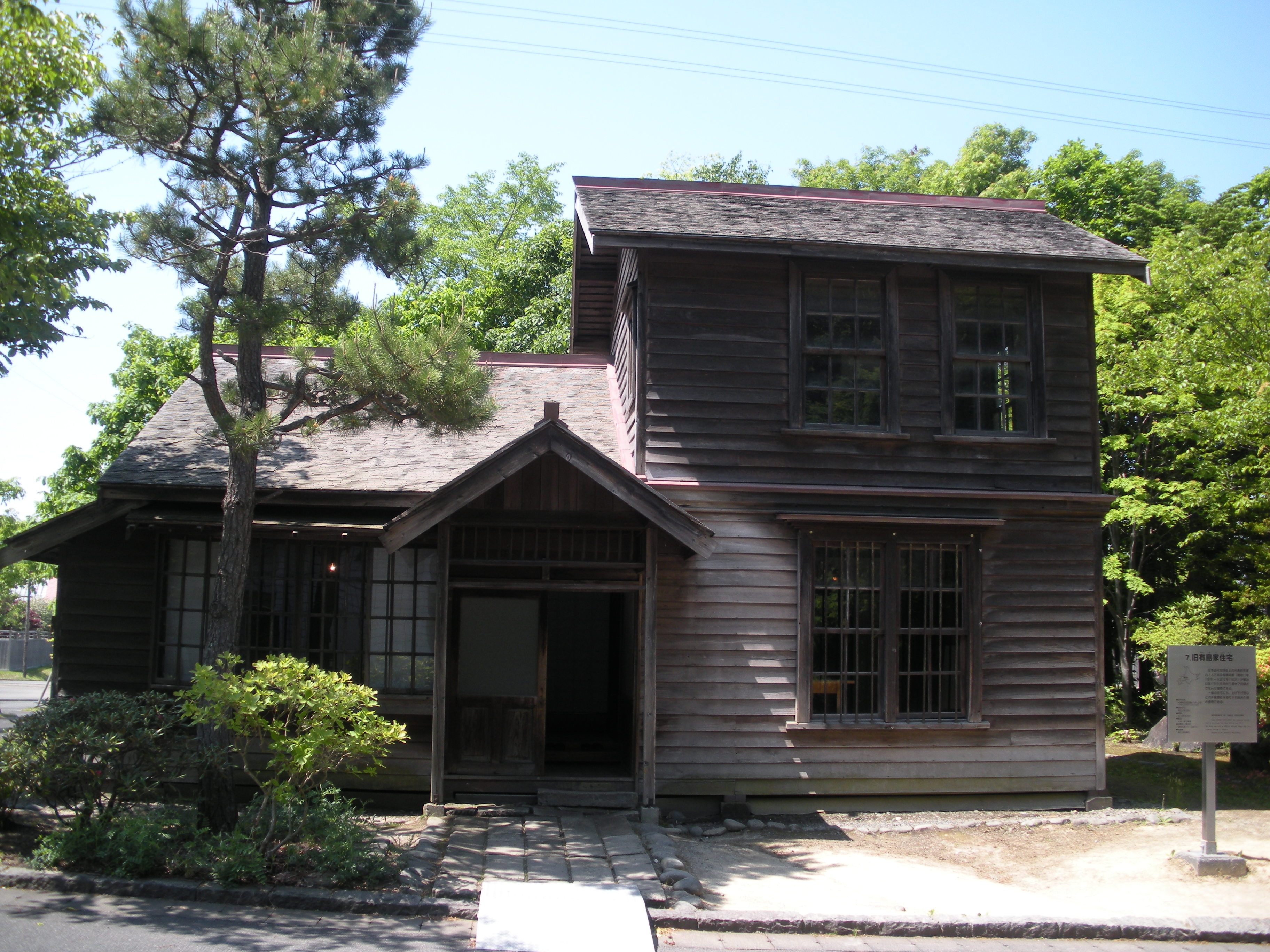 Japanese Novelist Takeo Arishima's House in Historical Village of Hokkaid. Atsubetsuch-konopporo, Atsubetsu-ku,Sapporo, Japan. Atsubetsu-ku, Sapporo Houses in Japan